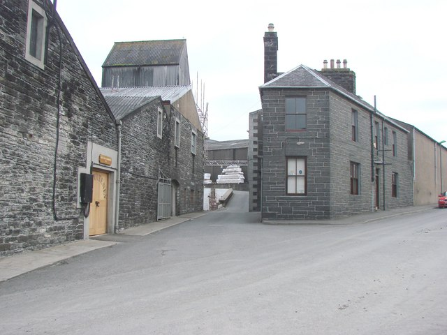 Old Pultney Distillery Buildings